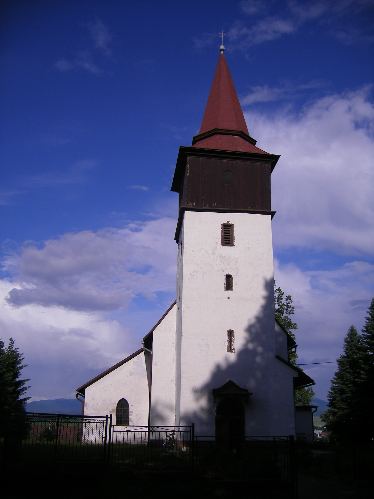 Turčiansky Peter - catholic church